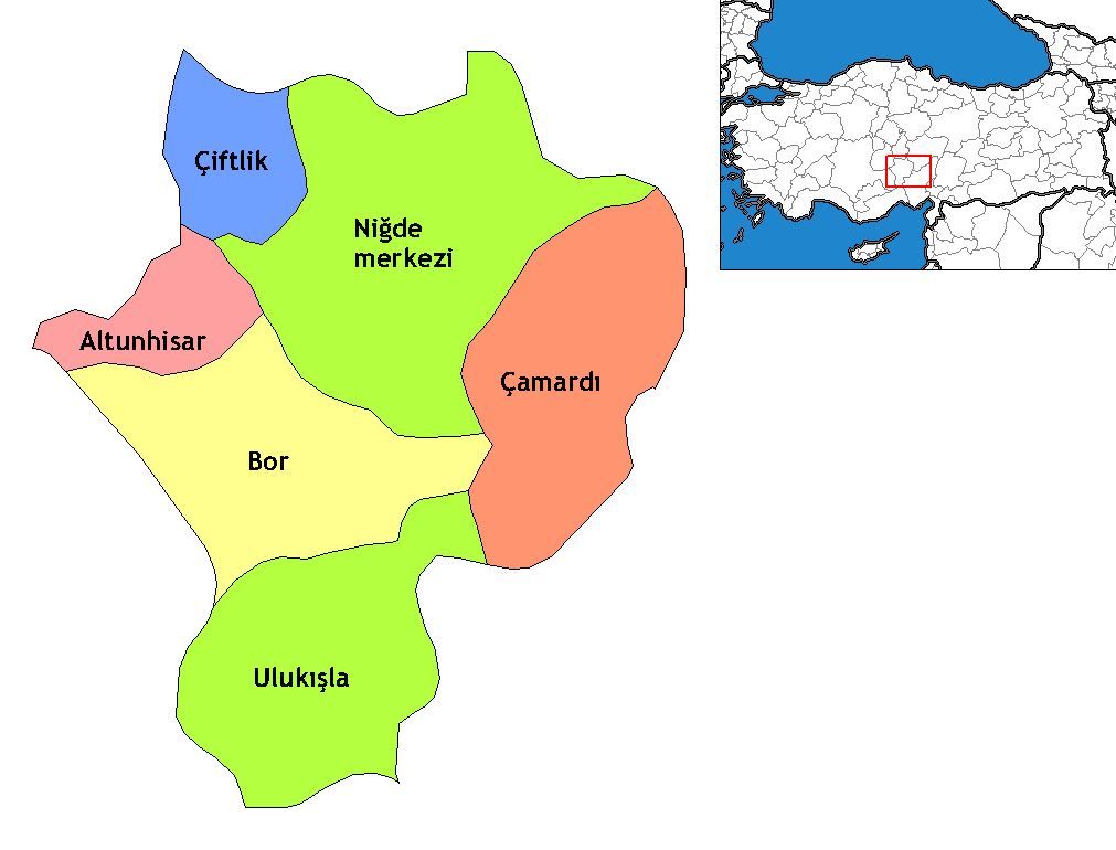 Map of the districts of Niğde province in Turkey. Created by Rarelibra 16:38, 4 December 2006 (UTC) for public domain use, using MapInfo Professional v8.5 and various mapping resources. Edited by One Homo Sapiens Corrected text where İ,Ş,ı,ğ,or ş occurs in name. Source: [statoids-com]. Increased font size and enhanced color differences among adjacent districts.